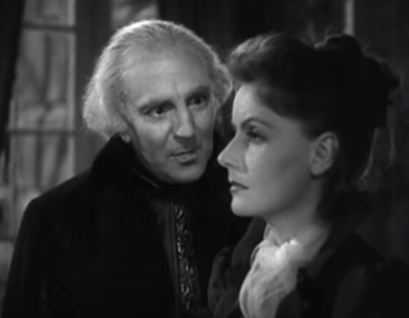 George Zucco and Greta in Conquest - trailer (cropped screenshot)